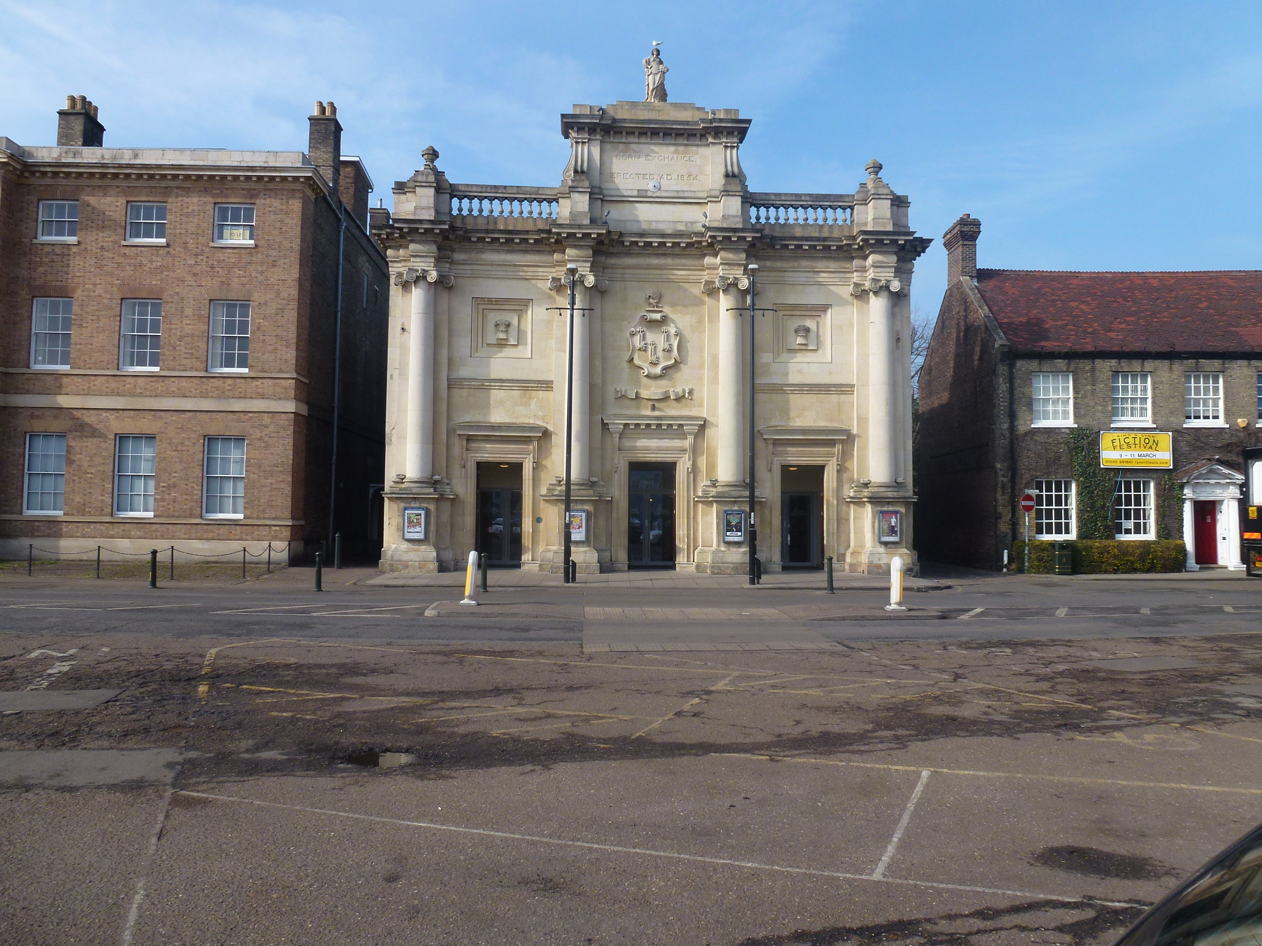 Corn exchange on the Tuesday market place, Kings Lynn.